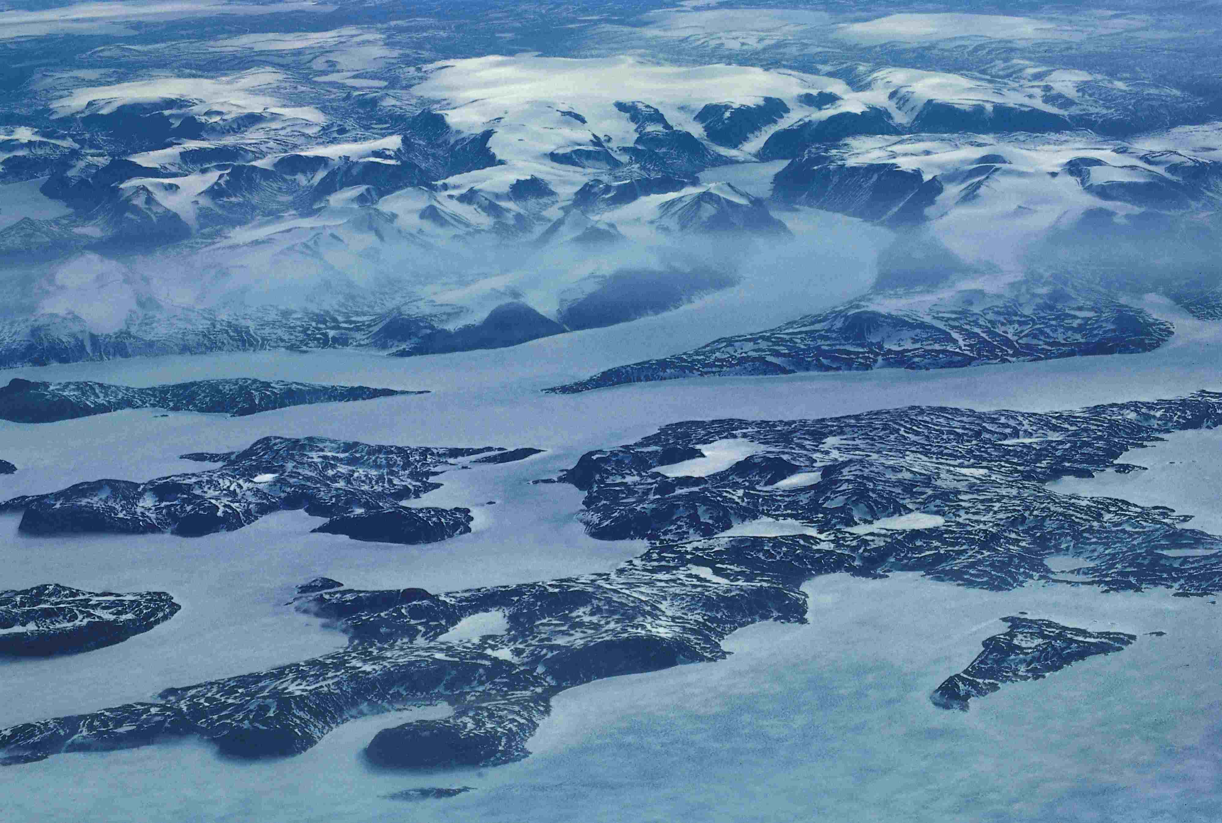 North-eastern coast of Baffin Island (Home Bay), Canada, from the cockpit of an Airbus A330 (height about 11,500 m)